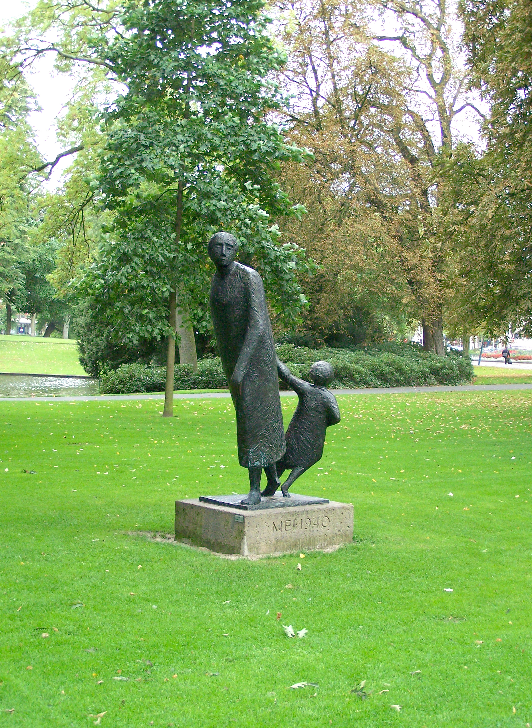 World War II memorial "De trek" (leaving) by Hein Koreman in 1956. After several other places the sculpture was ultimately placed at Park Valkenberg.